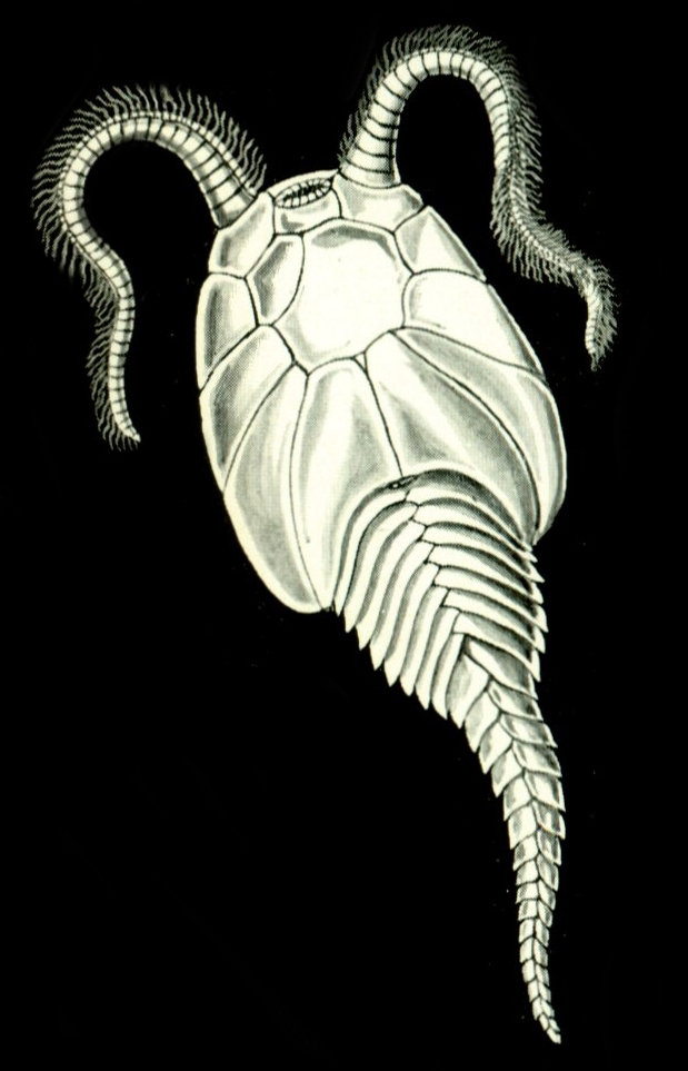 Haeckel Amphoridea-1b. See here for index to numbers. Placocystis crustacea (Haeckel) = Enoploura balanoides (Meek, 1872) from below